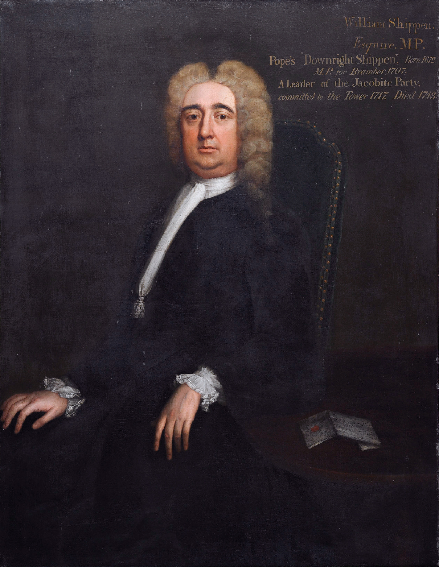 William Shippen (1672-1743)